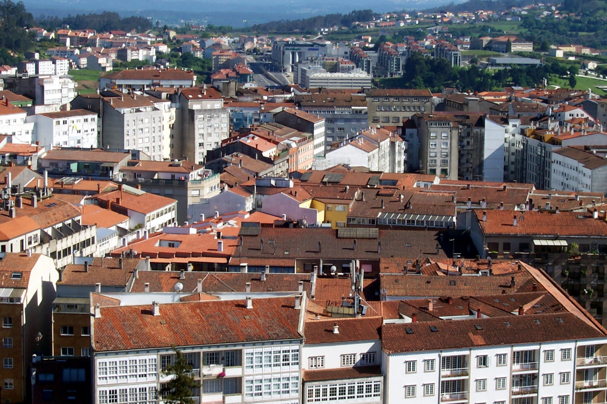 Bird´s eyes view of the part new of Santiago de Compostela (Galicia, Spain) from a ferris wheel in the oak forrest of Saint Susan.